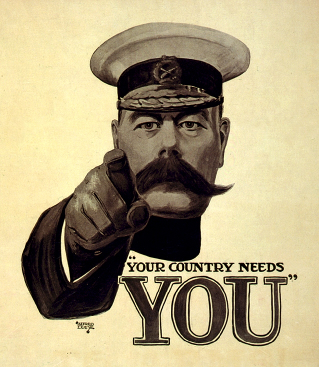 An icon of total war, Lord Kitchener calls upon British citizens to enlist for the First World War.